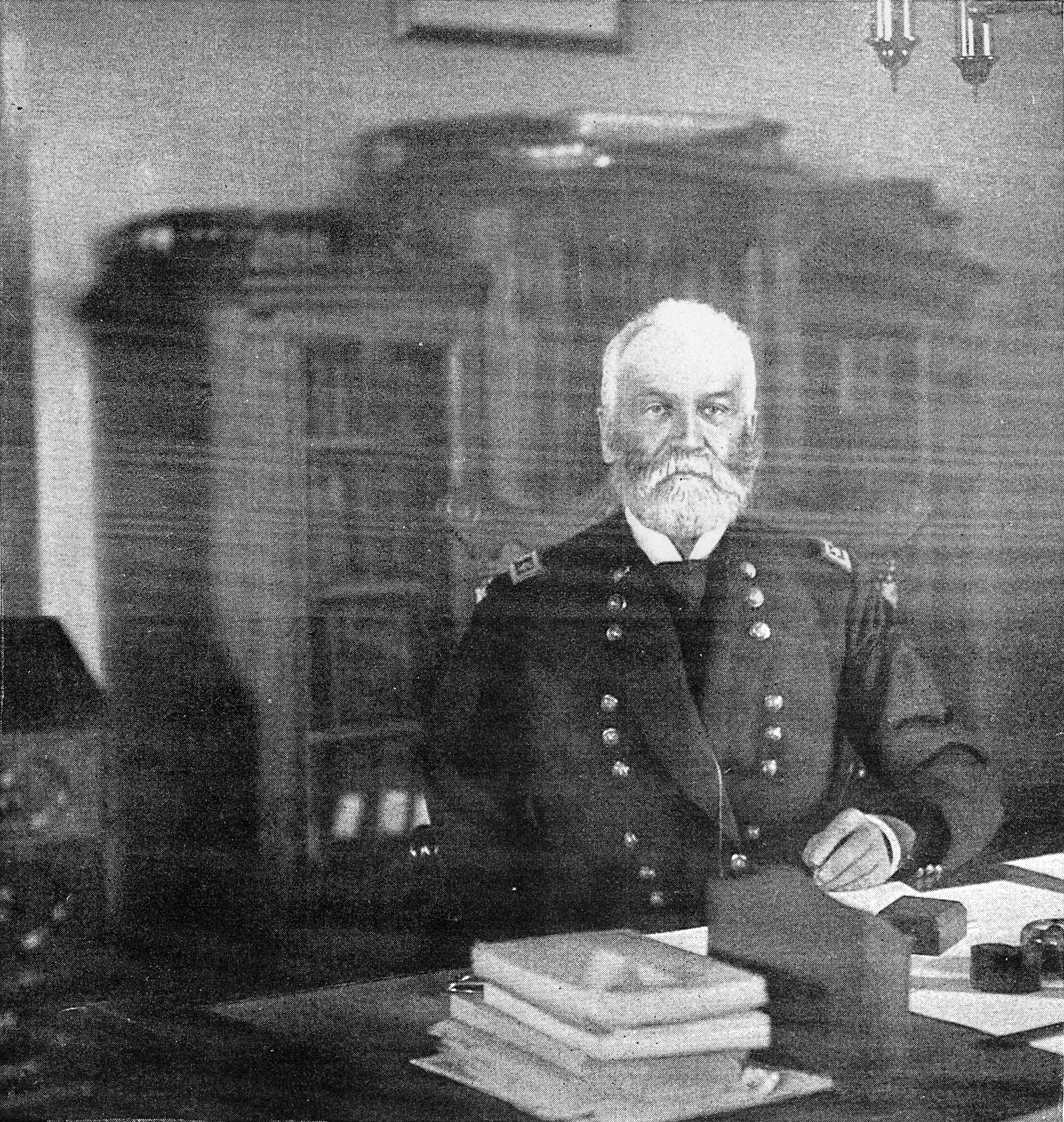 Photograph of General Oliver Otis Howard sitting behind his desk at Governor's Island in 1893 in uniform.